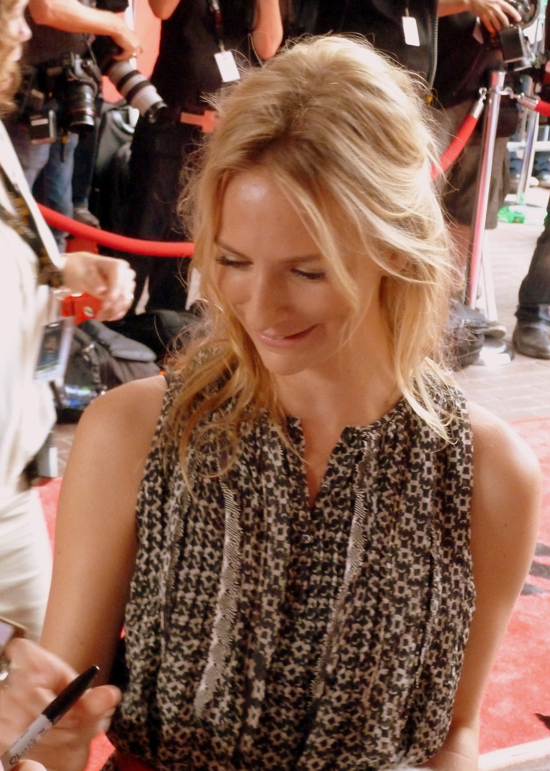 Mickey Sumner at the premiere of Girl Most Likely, Toronto Film Festival 2012 For some reason, it didn't dawn on me at all this was Sting's (Gordon Sumner) daughter. The name of the movie changed from Imogene to Girl Most Likely